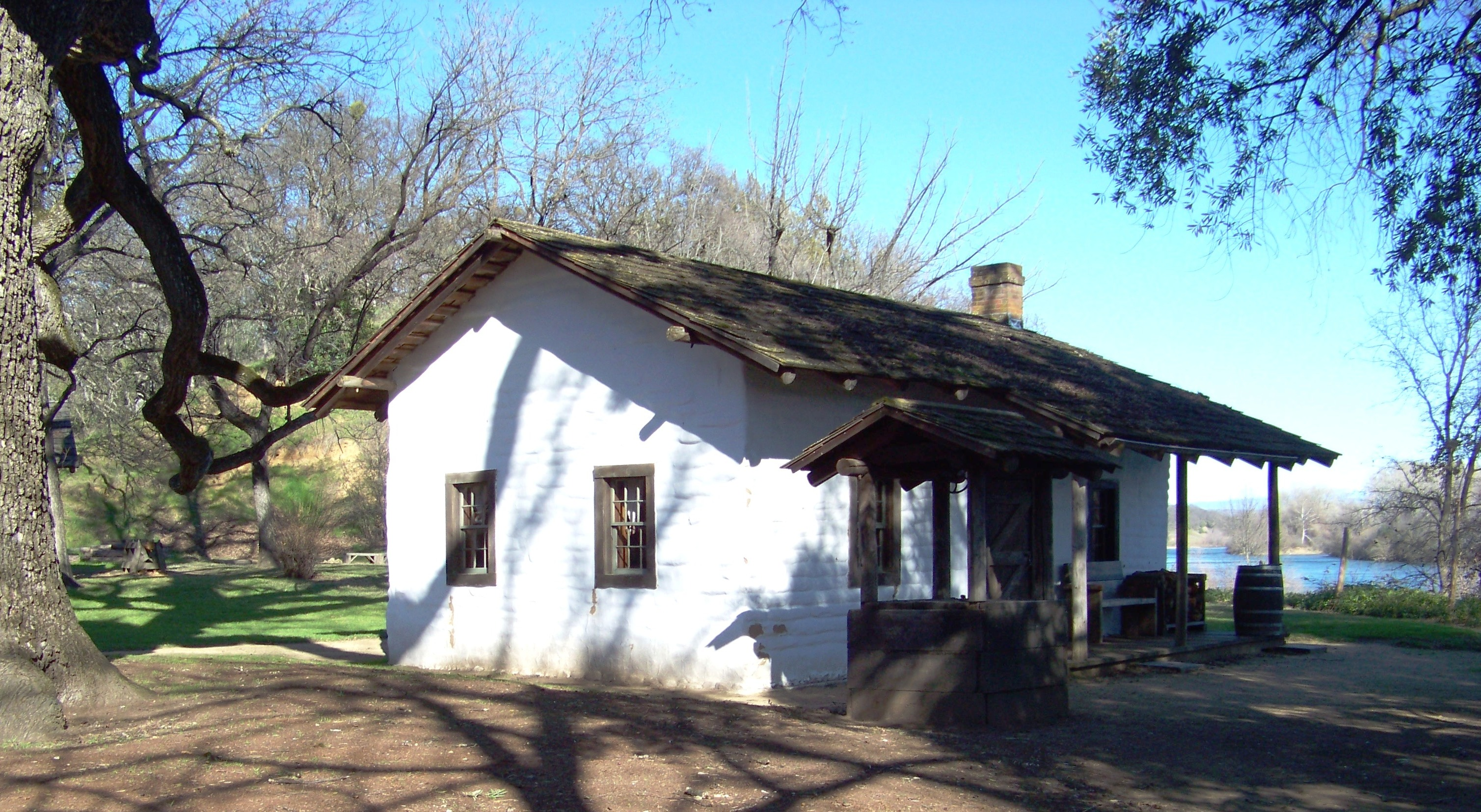 Front of the William B. Ide Adobe in William B. Ide Adobe State Historic Park, a California adobe and history museum near Red Bluff, Northern California, USA